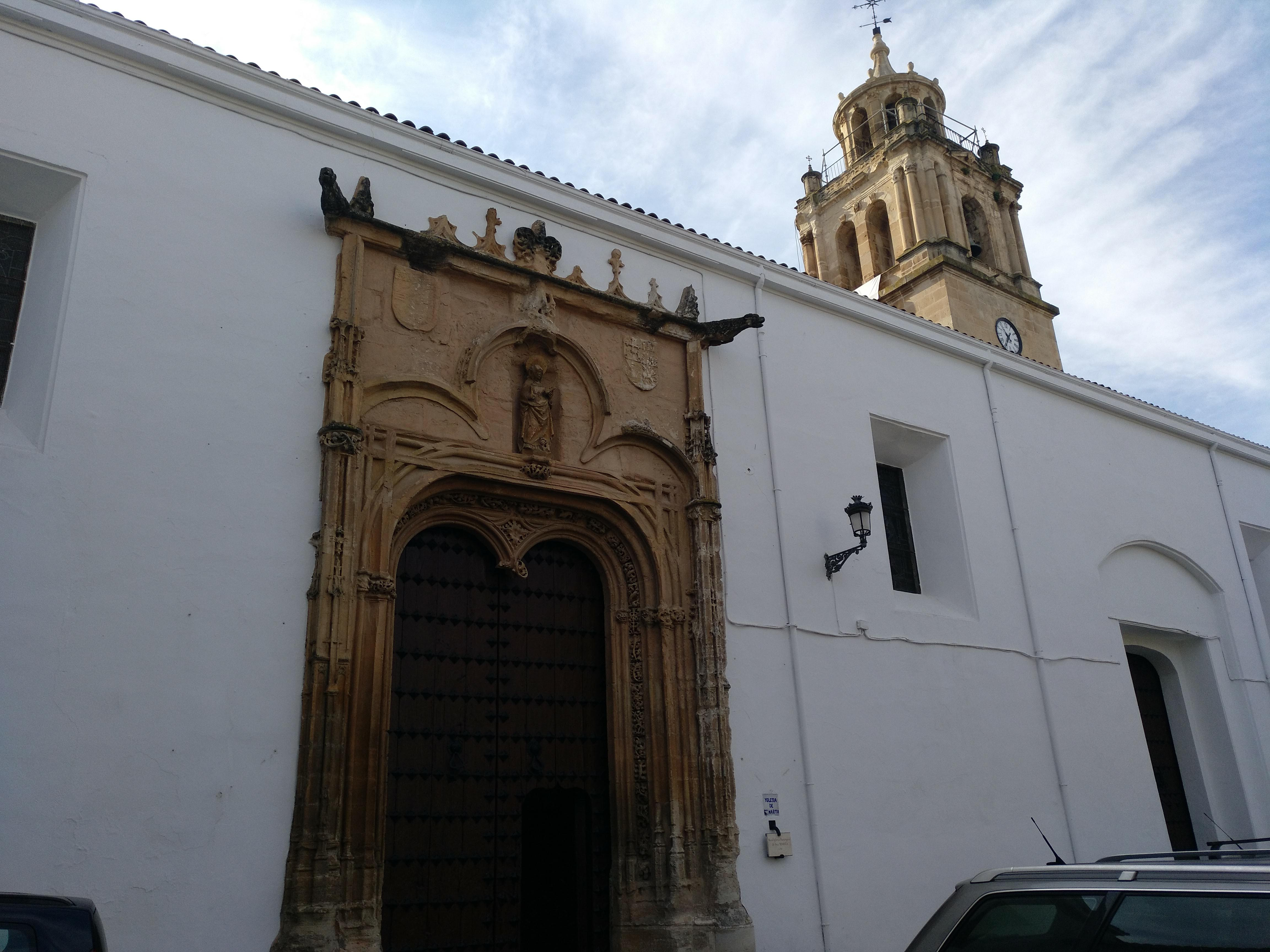 Santa Marta Royal church. Martos, Jaén (Spain)